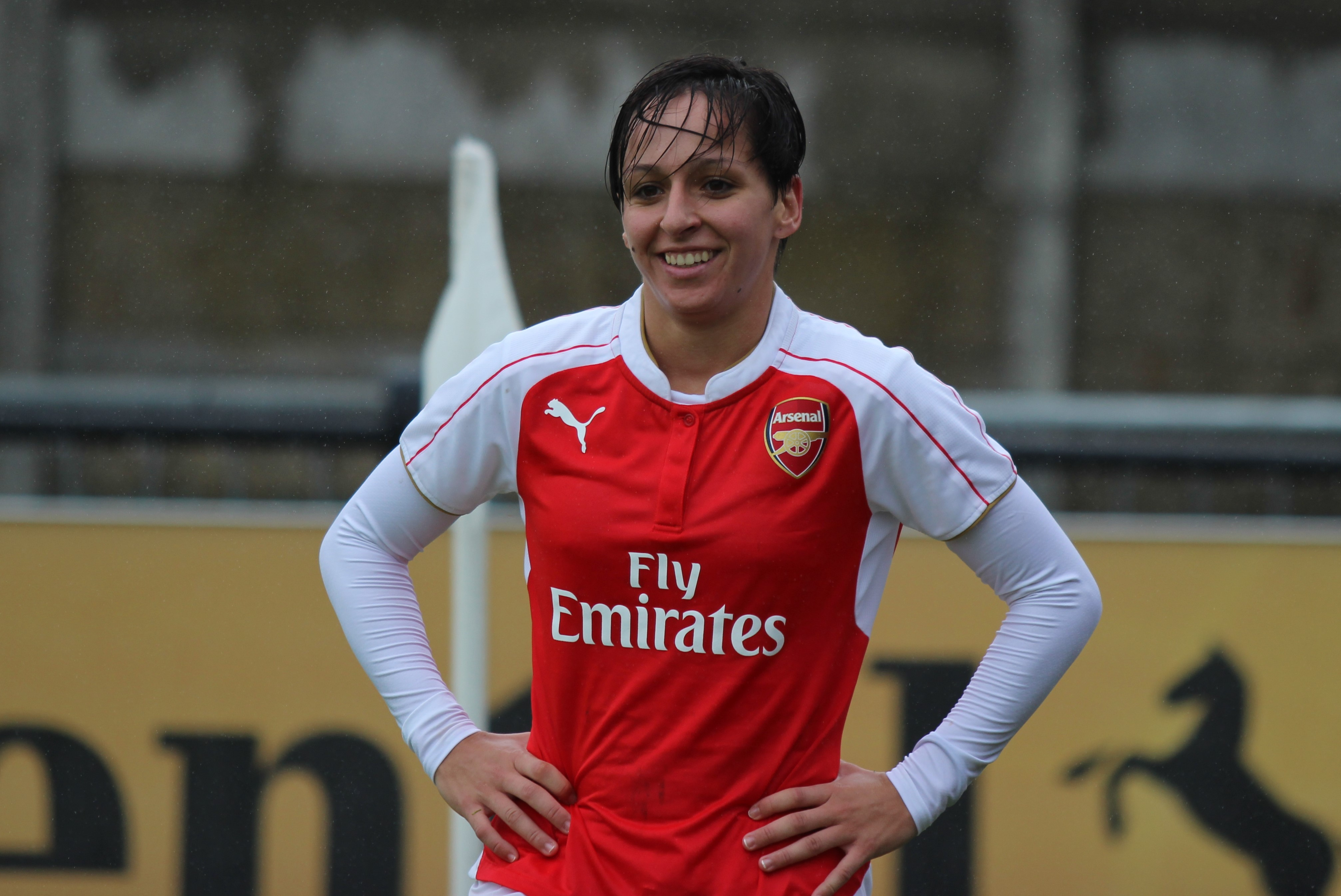 Marta Corredera of Arsenal Ladies during the game against Notts County.